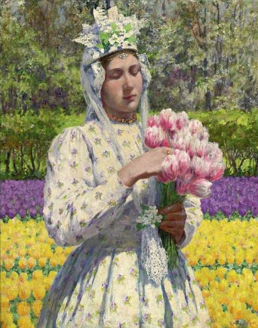 Hollands bruidje